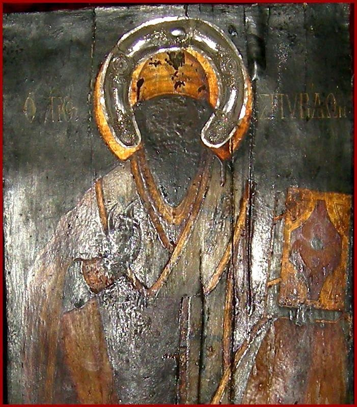 Saint Spyridon Icon in Saint Spyridon Church in Kastoria